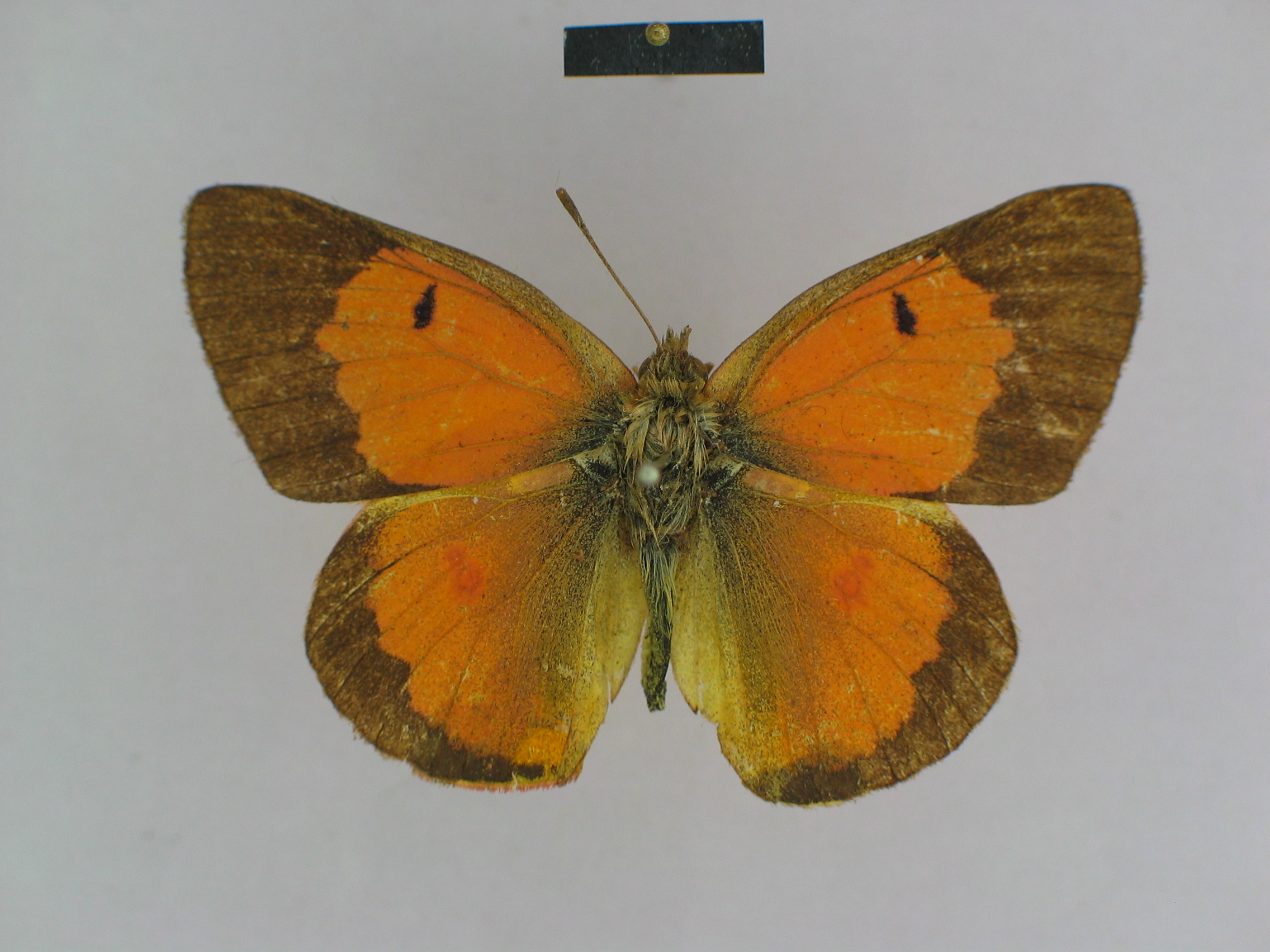 Specimen of the species Colias fieldii from the collection of the Museum für Naturkunde; ♂ dorsal side; scalebar=1 cm